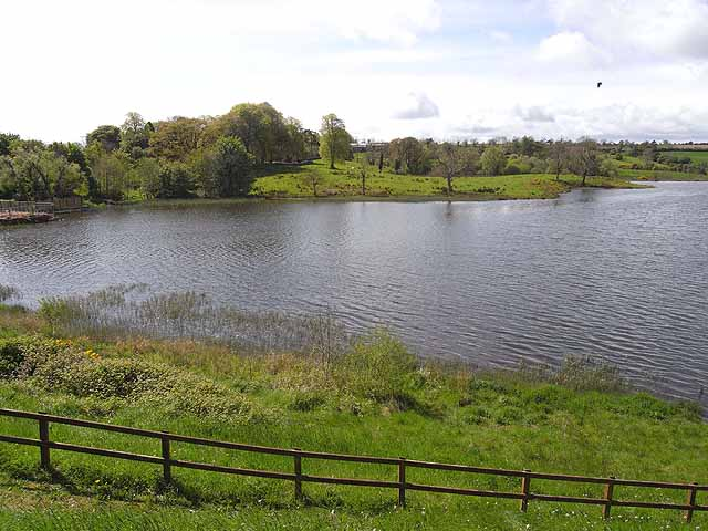 Town Lough, Carrigallen The Irish lakeland of County Cavan and adjoining areas is dotted with innumerable small loughs nestling between the drumlins. This one lies very close to the town centre of Carrigallen in County Leitrim on the road out to Mohill.